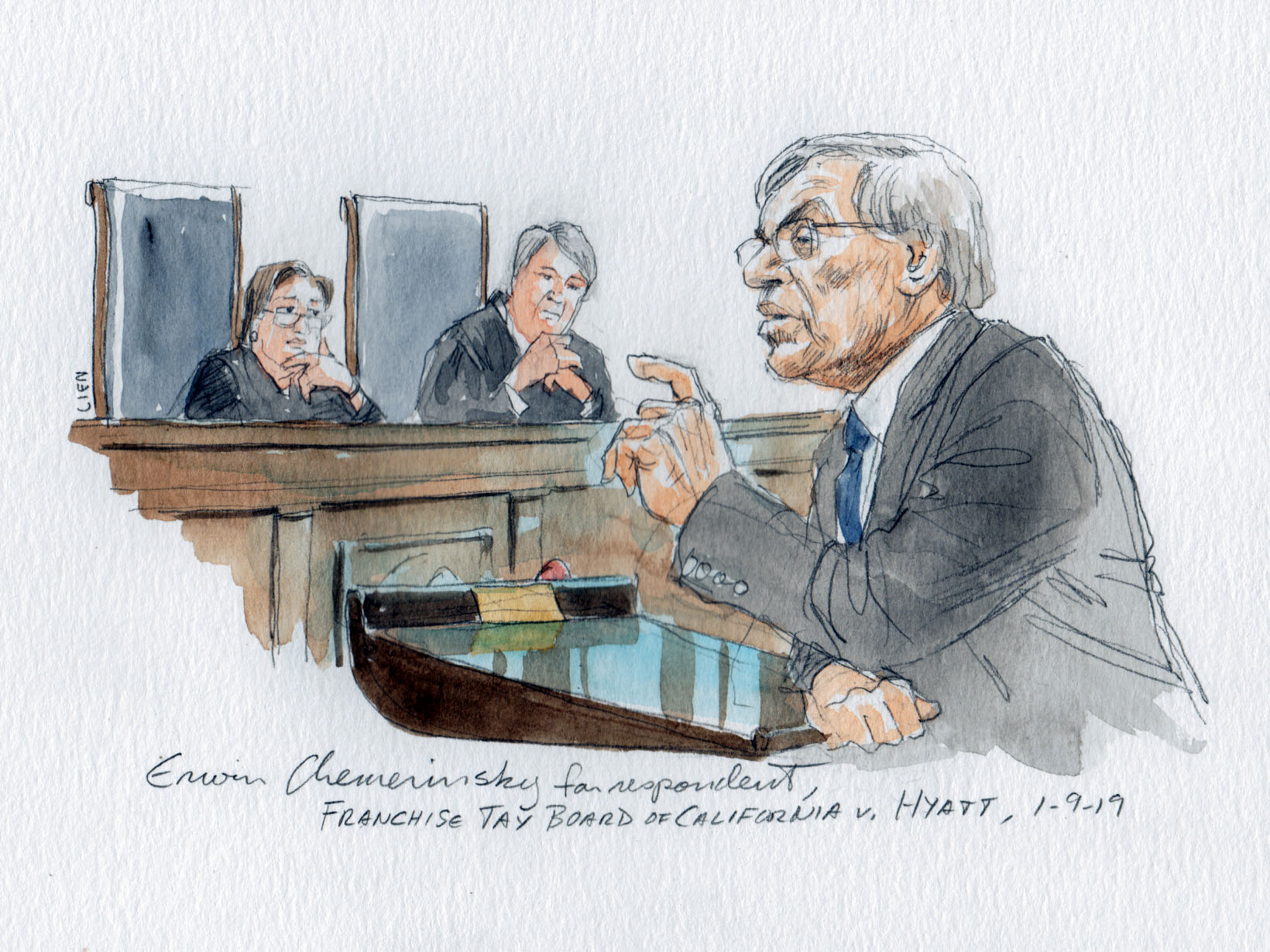 Erwin Chemerinsky presents oral arguments before the US Supreme Court in the case Franchise Tax Board of California v. Hyatt. He represents the respondent, Gilbert Hyatt. In the background, Justices Elena Kagan and Brett Kavanaugh look on.